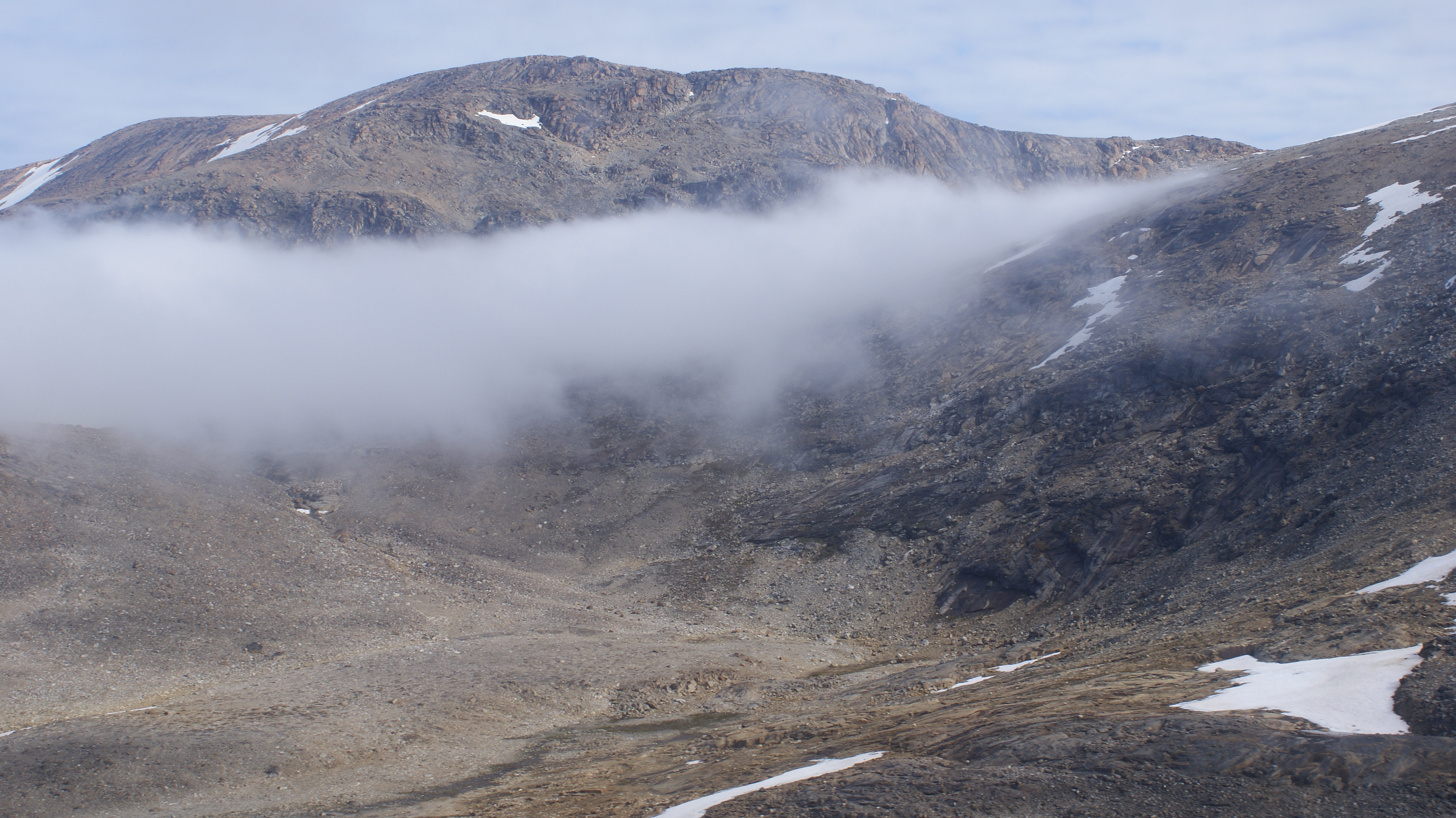 Aerial view of Itillersuaq valley on Qaarsorsuaq Island, Upernavik Archipelago, Greenland. Photographed from the Air Greenland Bell 212 helicopter during the Upernavik Kujalleq - Upernavik flight.